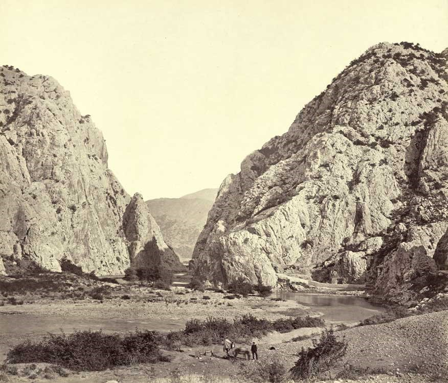 Josef Székely VUES IV 41097 Demir Kapi: view from inside the gorge. October 1863